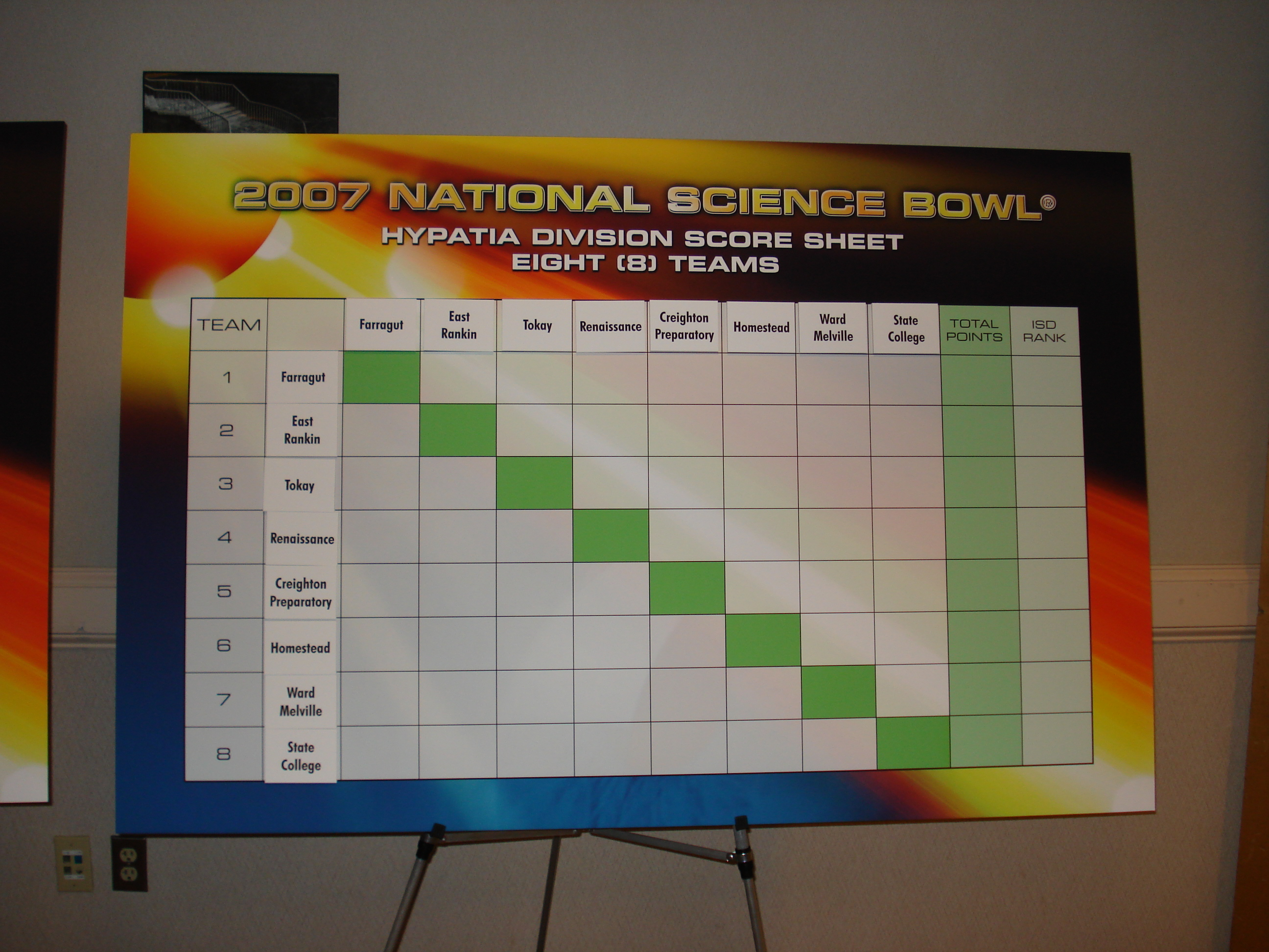 An example scoreboard of the Hypatia division from the 2007 National Science Bowl National Competition.